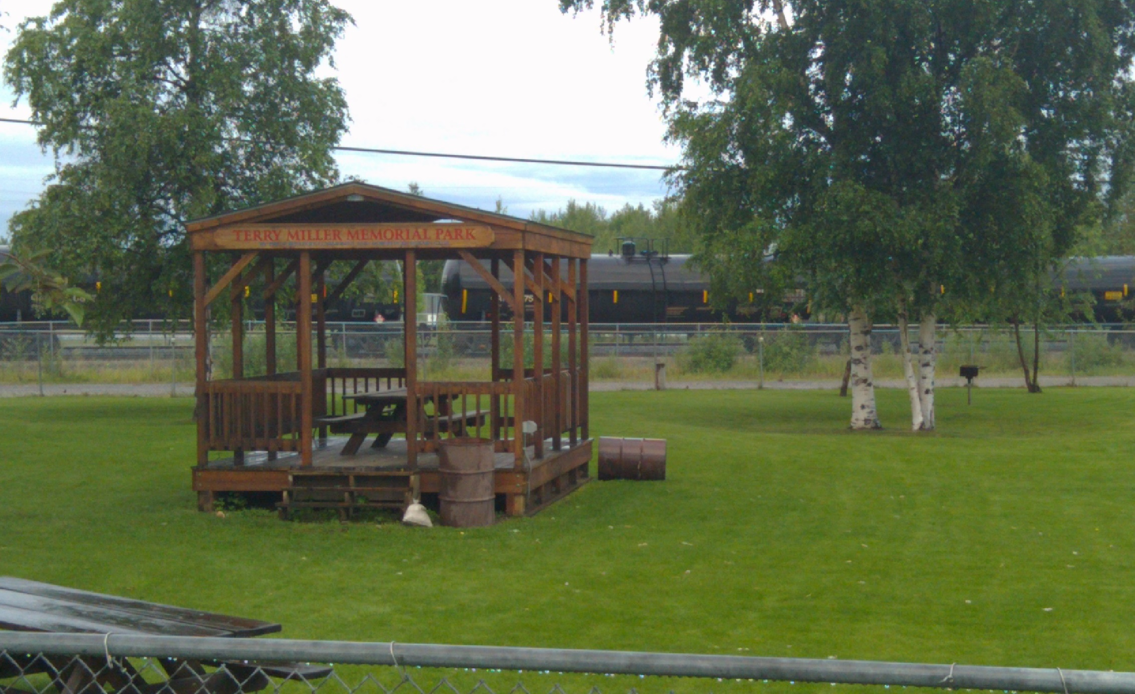 Terry Miller Memorial Park in North Pole, Alaska. Terry Miller (1942–1989) grew up in North Pole, where his family ran the Santa Claus House. The park may or may not be located on the site of the original Santa Claus House; I really don't remember anymore. Alaska Railroad tanker cars are in the background.